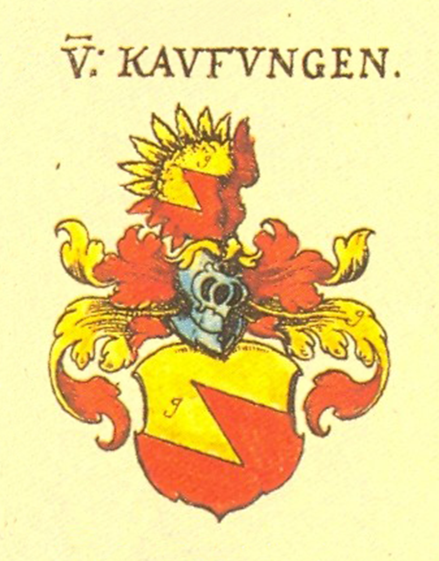 Coat of arms of Kaufungen